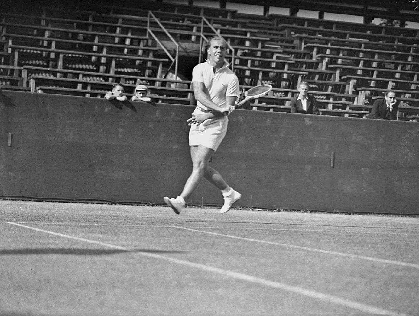 German tennis player Henner Henkel at White City Stadium, Sydney.